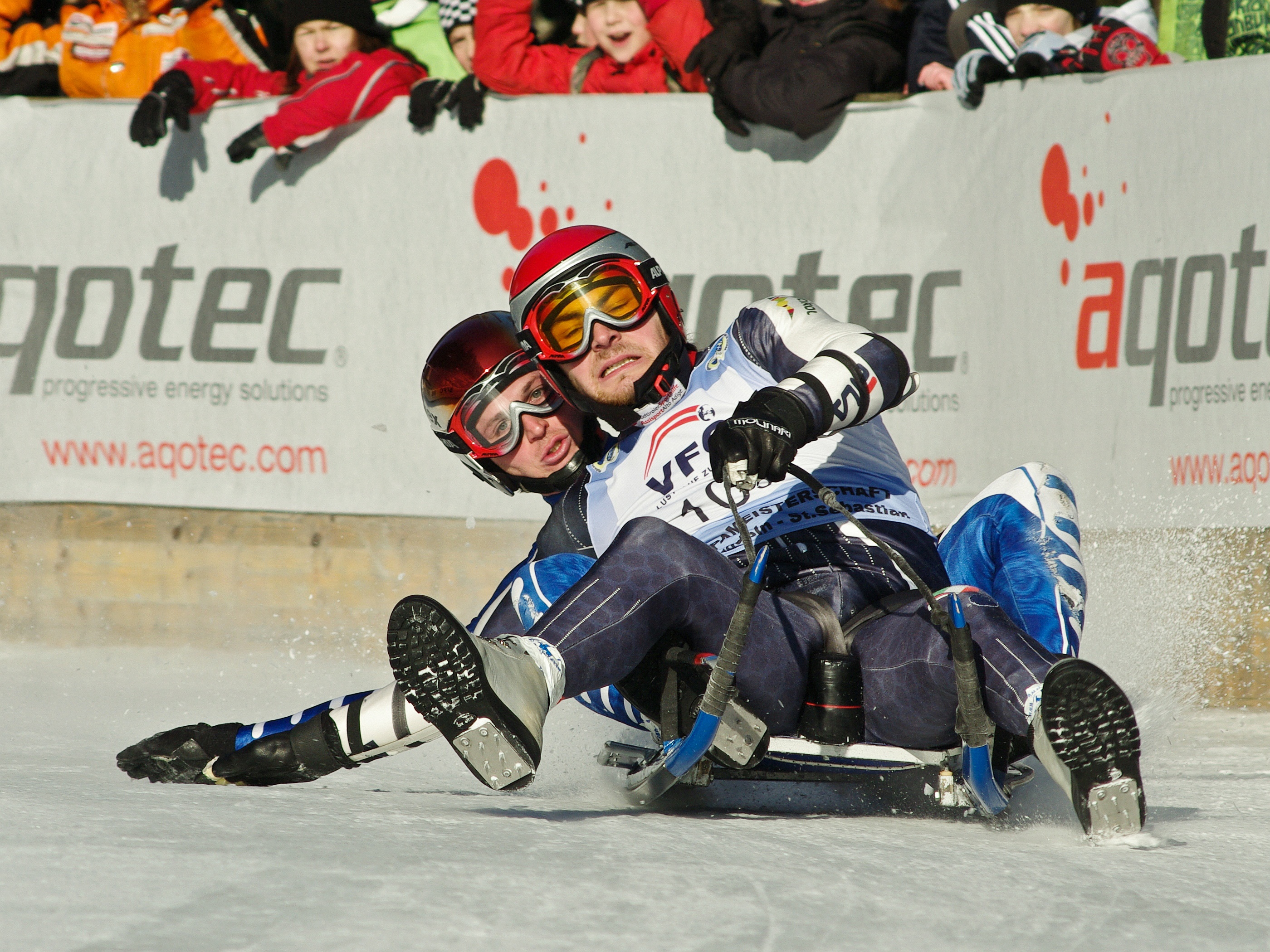 Italian natural track lugers Florian Breitenberger and David Mair at the FIL European Luge Natural Track Championships 2010 in St. Sebastian, Austria.